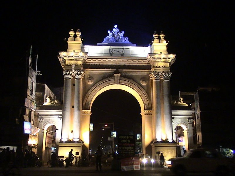 This is the famous gate at the centre of Burdwan(West Bengal,India) town.This gate was made by Burdwan Maharaja to welcome Lord Curzon.